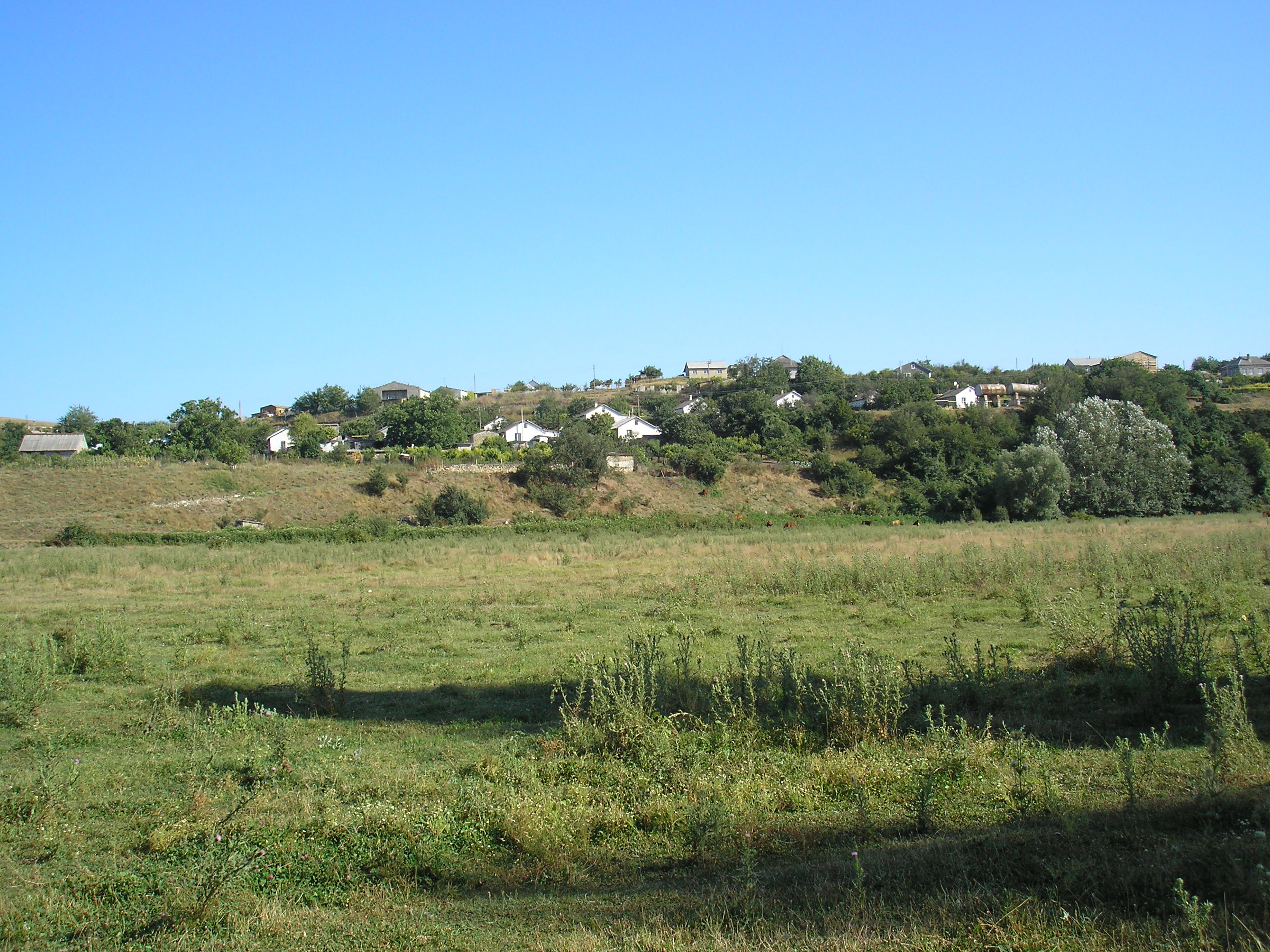 Village Bryanskoe, Bakhchisaray district, Crimea